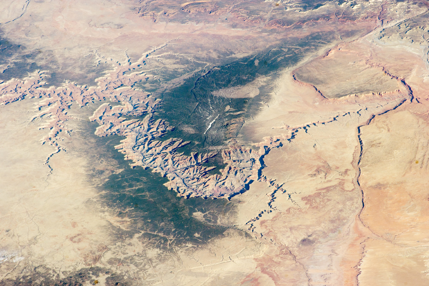 Astronaut photograph ISS039-E-5258 was acquired on March 25, 2014, with a Nikon D3S digital camera using a 180 millimeter lens, and is provided by the ISS Crew Earth Observations Facility and the Earth Science and Remote Sensing Unit, Johnson Space Center. The image was taken by the Expedition 39 crew. It has been cropped and enhanced to improve contrast, and lens artifacts have been removed. The International Space Station Program supports the laboratory as part of the ISS National Lab to help astronauts take pictures of Earth that will be of the greatest value to scientists and the public, and to make those images freely available on the Internet. Additional images taken by astronauts and cosmonauts can be viewed at the NASA/JSC Gateway to Astronaut Photography of Earth. Caption by M. Justin Wilkinson, Jacobs at NASA-JSC.